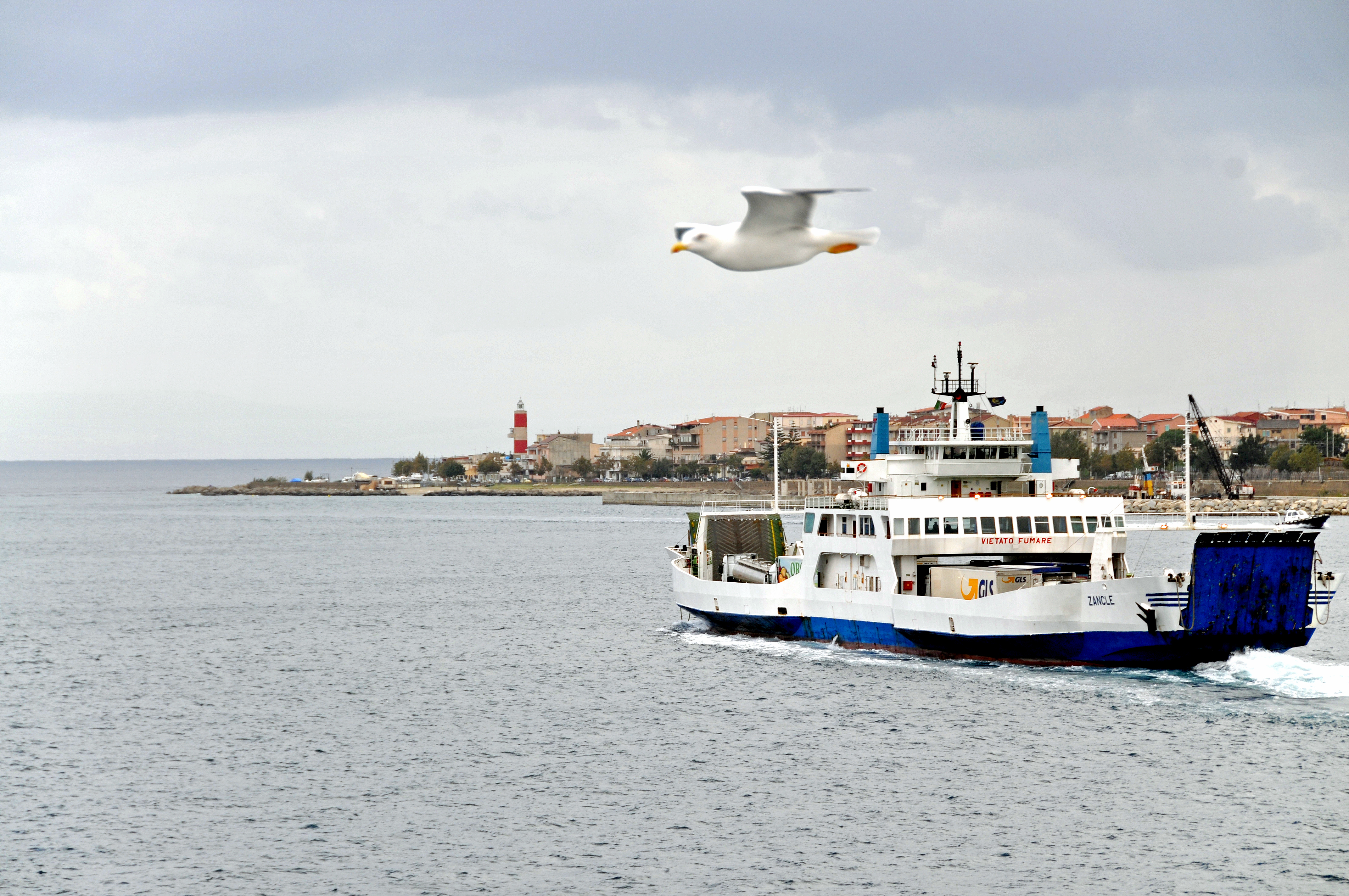 My photos are FREE for anyone to use, just give me credit and it would be nice if you let me know. Thanks I was concentrating on composing the shot to get the ferry and lighthouse at the correct time and the seagull just flew in at the right time and I wasn't even sure if I caught him in the shot at all. Punta Pezzo lighthouse is 23 metre high conical concrete tower with red and white stripes, built in 1953. The rotating optical lantern emits a green light every 15 seconds, visible for 15 nautical miles (28 km). In exceptional cases, the light is yellow, and visible for 18 nautical miles (33 km). It can be seen in the distance. The ferry is the Zancle.